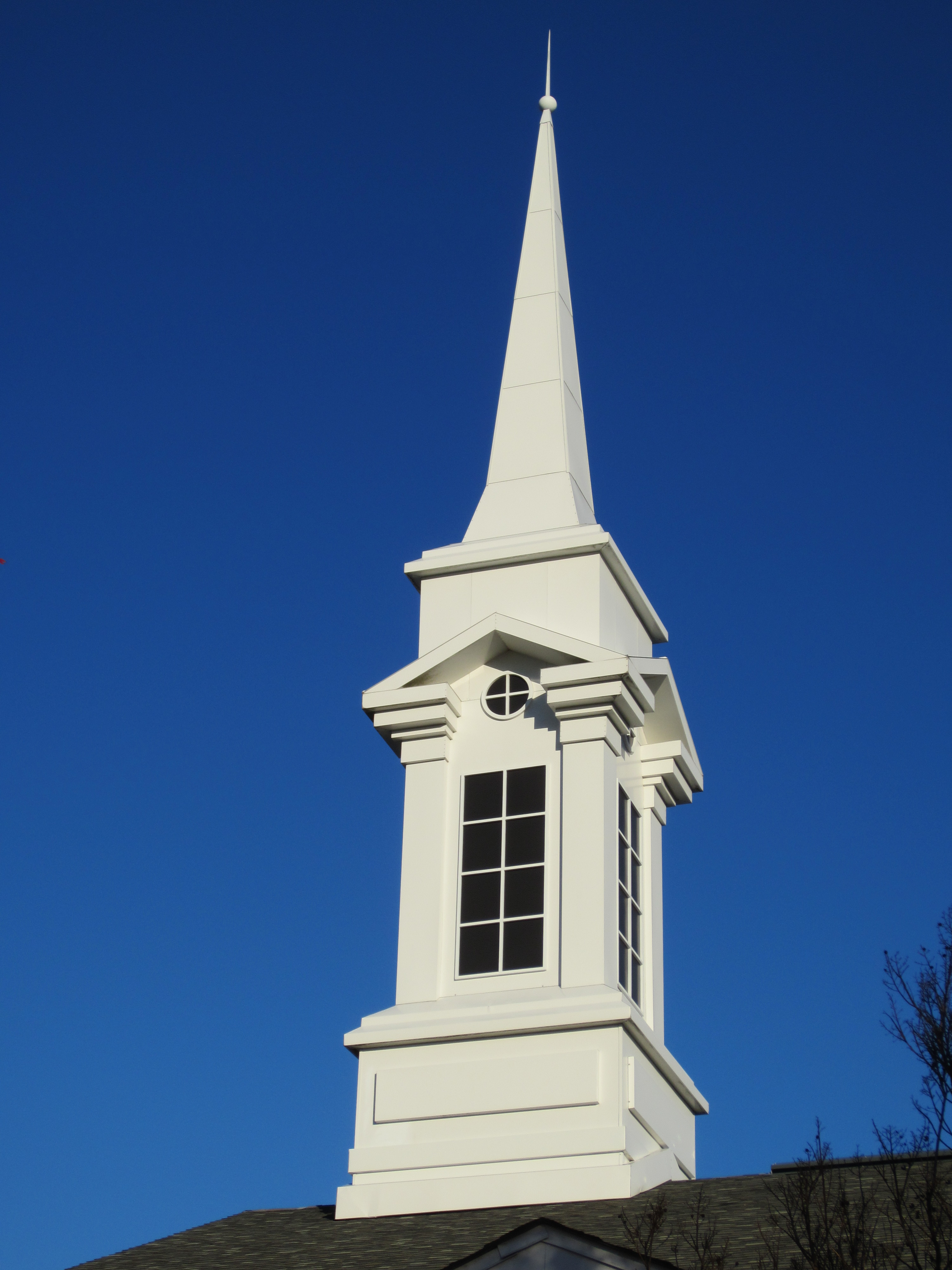 Steeple on a meetinghouse of The Church of Jesus Christ of Latter-day Saints in northwest Houston, Texas in January 2012